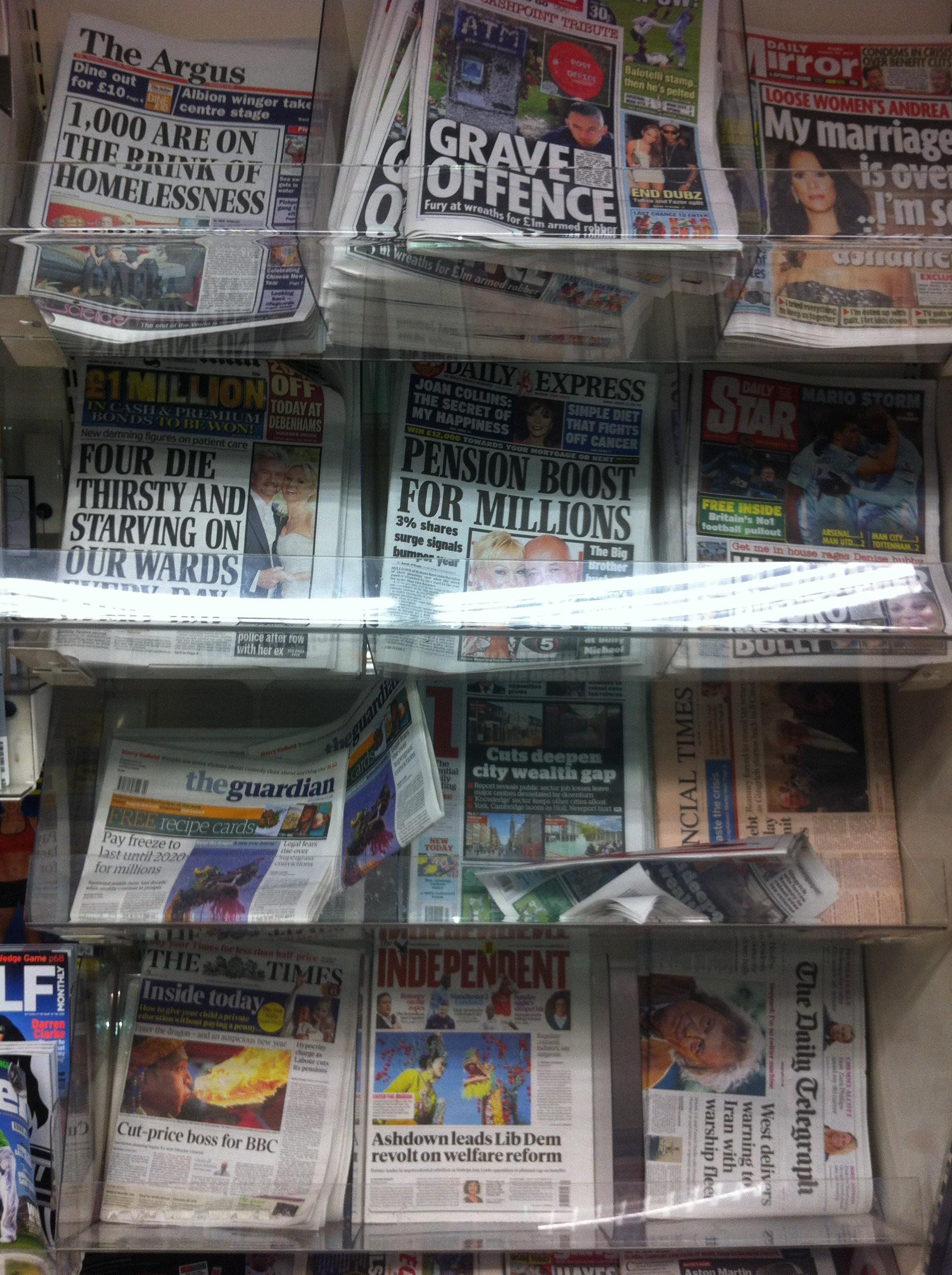 Brighton Argus: 1,000 are on the brink of homelessness The Sun: GRAVE OFFENCE: Fury at wreaths for £1m armed robber Daily Mirror: My marriage is over... I'm so ashamed Daily Mail: FOUR DIE THIRSTY AND STARVING ON OUR WARDS EVERY DAY Daily Express: PENSION BOOST FOR MILLIONS Daily Star: I'LL HAMMER BIG BRO BULLY The Guardian: Pay freeze to last until 2020 for millions i: Cuts deepen city wealth gap Financial Times: (can't read, something about debt) The Times: Cut-price boss for BBC Independent: Ashdown leads Lib Dem revolt on welfare reform Daily Telegraph: West delivers warning to Iran with warship fleet